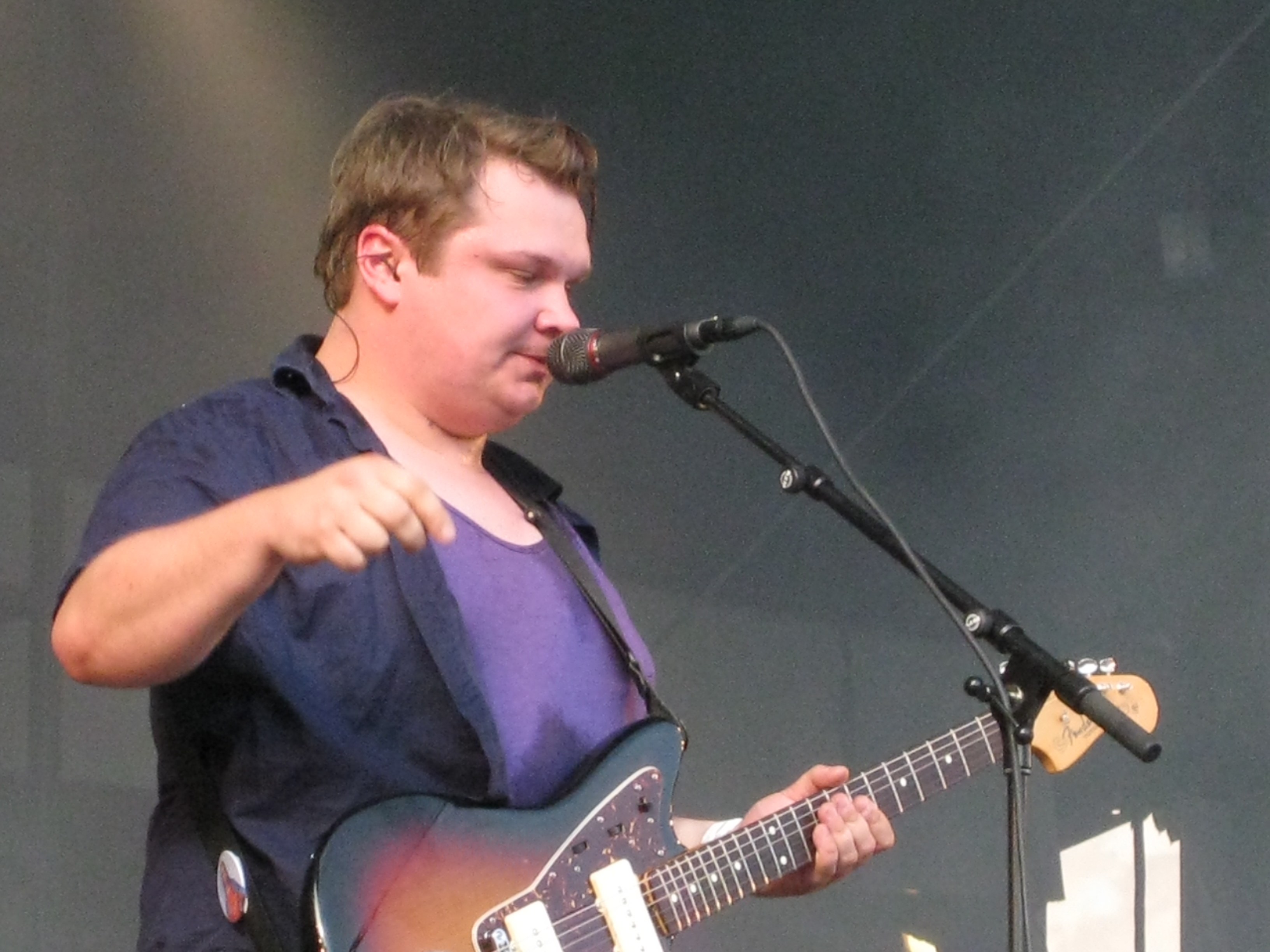 Heggero from Norwegian band Lukestar